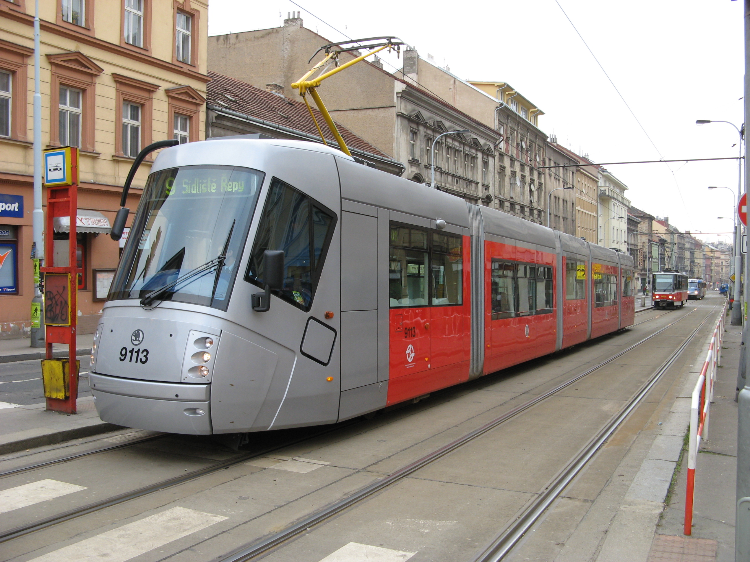 Tramway Škoda 14 T in Prague, Plzeňská street